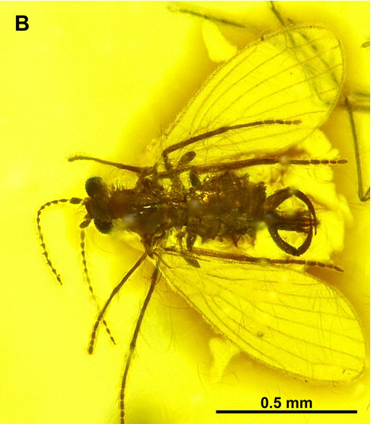 Bruchomyiinae, Sycoracinae and subfamily incertae sedis. (B) Bamara groehni. ♂, Holotype specimen.